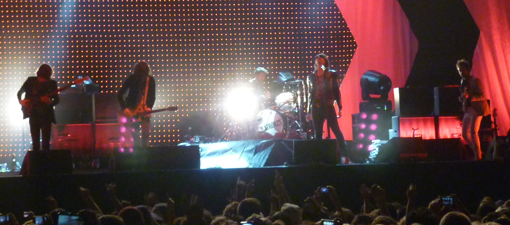 The Strokes at Austin City Limits Festival Friday October 8th, 2010